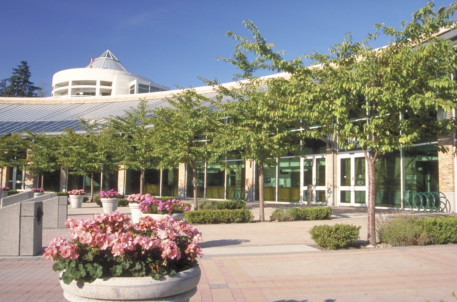 Port Moody city hall, Metro Vancouver, Canada.